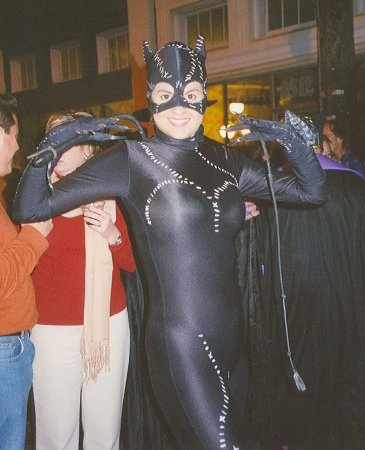 "Cat Woman" Costumer, New Orleans Carnival "Krewe of OAK" celebration Photo by Infrogmation, 4 February, 2005.